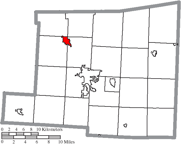 Map of the municipal and township boundaries of Knox County, Ohio, United States, as of the 2000 census, with the location of the village of Fredericktown highlighted. Township borders are shown only in unincorporated areas in order to differentiate incorporated and unincorporated areas more clearly.